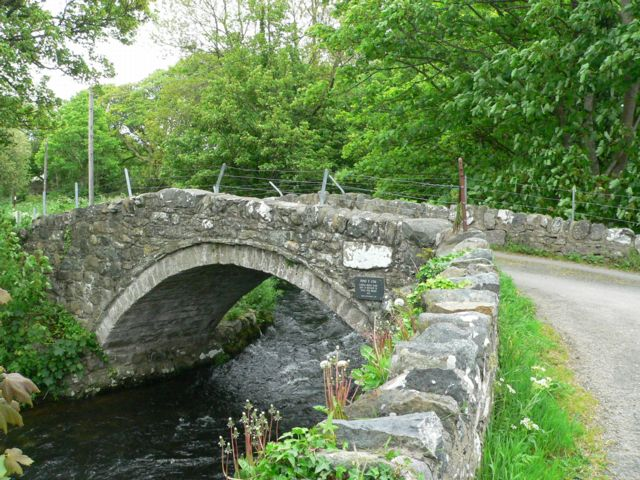 A view of the historic bridge known as "Pont Y Cim," Pontllyfni, Gwynedd. An inscribed stone on the bridge reads "Pont Y Cim, Catring Bwkle hath give 20 povends to mack this brighe. 1612". This has to be the narrowest road bridge open to road traffic in Wales, maybe the UK. It measures 6' 6" (1.9m) wide. Unless of course you know different! "The bridge was built in 1612 at the expense of Catherine Buckley at the cost of £20, in memory, it is said, of her fiance who was drowned crossing the river here. It was in need of repair, as presented to the quarter sessions in 1750, and was widened by 75 cm on the upstream side later, the widening seriously damaged by a flood in 1935 after which it was reduced to its original width."